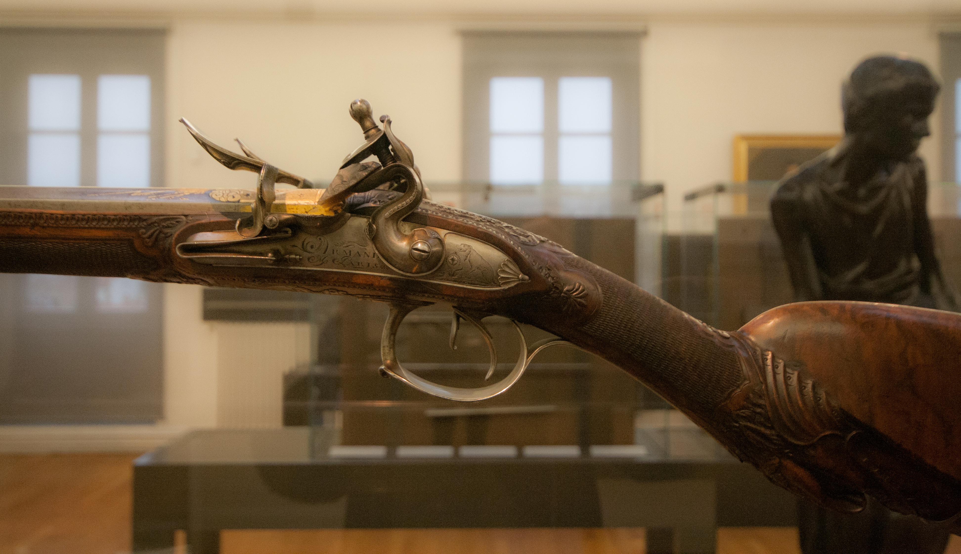 Flintlock musket fully carved and engraved. Weapons Department in the Museum of Art and Industry in Saint-Étienne, France.